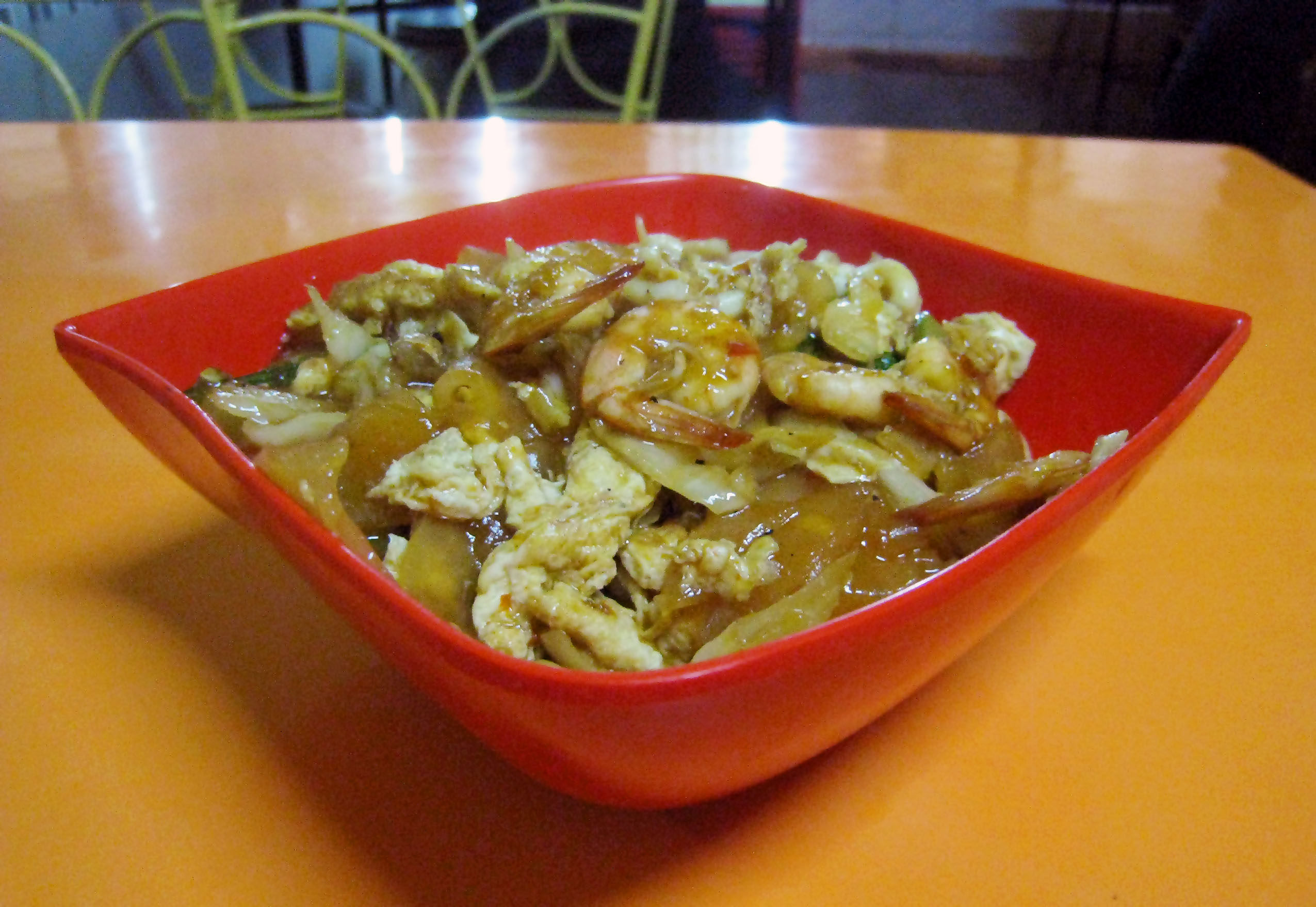 Seblak seafood, a specialty of Bandung city, West Java, Indonesia. Seblak is a savoury and spicy dish made of wet krupuk (traditional Indonesian crackers) cooked with scrambled egg, vegetables, and other protein sources, either chicken, seafood (prawn, fish and squid), or slices of beef sausages, stir-fried with spicy sauces including garlic, shallot, kecap manis (sweet soy sauce), and sambal chili sauce.